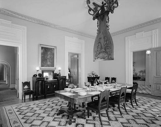 "Melrose" at 1 Melrose - Montebello Parkway, Natchez, Mississippi, . Part of Natchez National Historical Park. First floor, punkah in dining room, view south. Image courtesy of Historic American Buildings Survey—HABS.